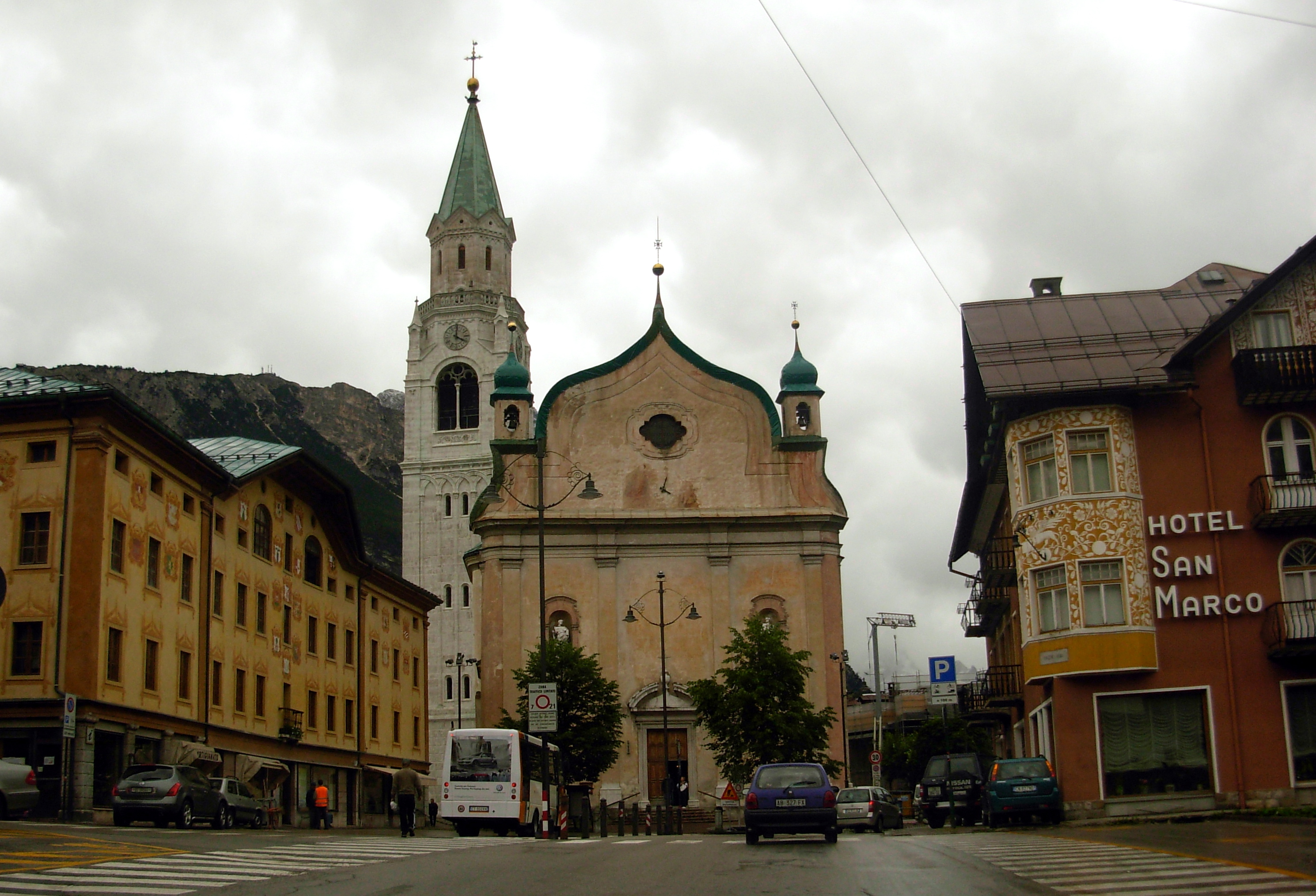 SS Philip and Jacob parish church. Cortina d'Ampezzo, Italy.